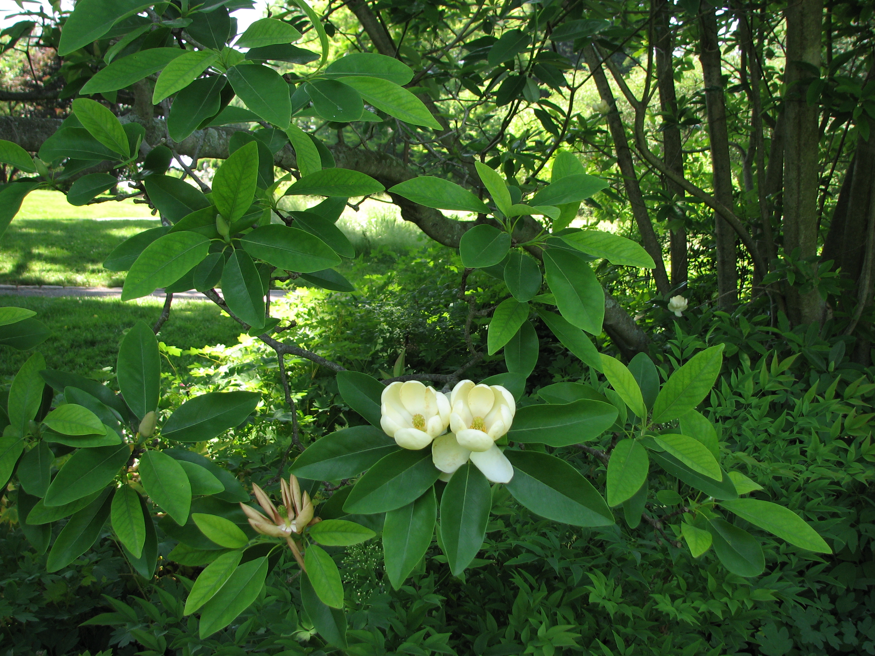 Picture of the flower on the Sweetbay Magnoliaen (Magnolia virginiana en . Photo taken in the near the Tennis Court Garden at the Chanticleer Garden where the species was identified.